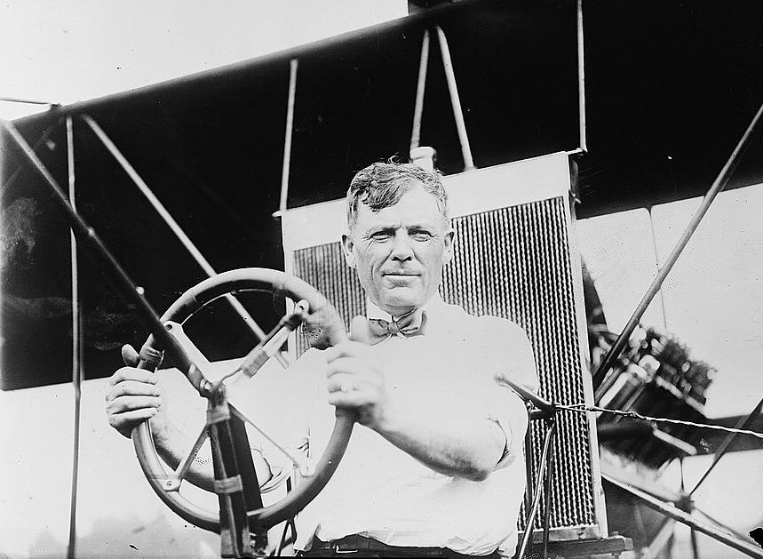 US Army Major and pioneer balloonist Tom Baldwin